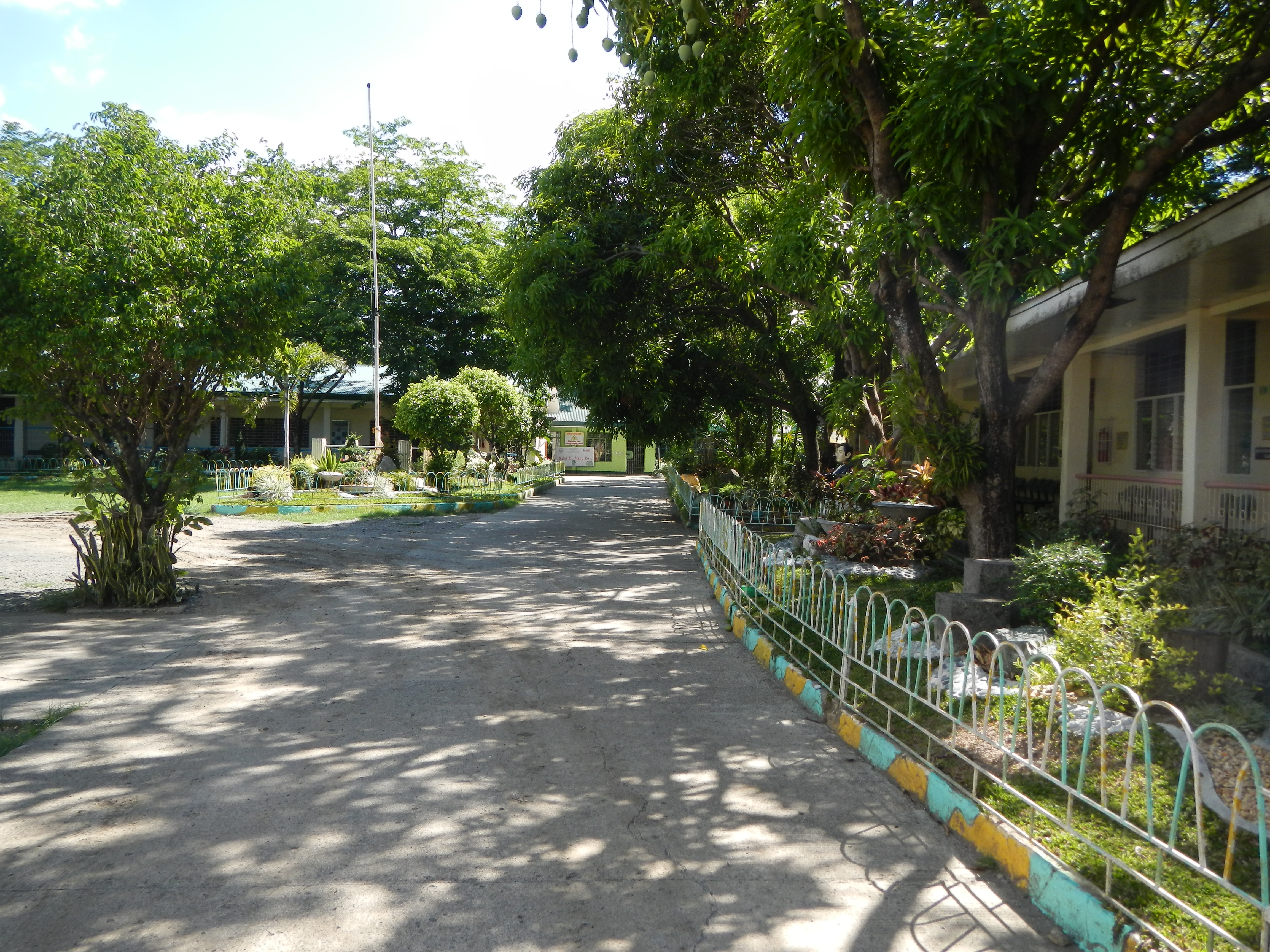 Pulong Buhangin National High School in Pulong Buhangin, Bulacan Pulong Buhangin Santa Maria, Bulacan [1]